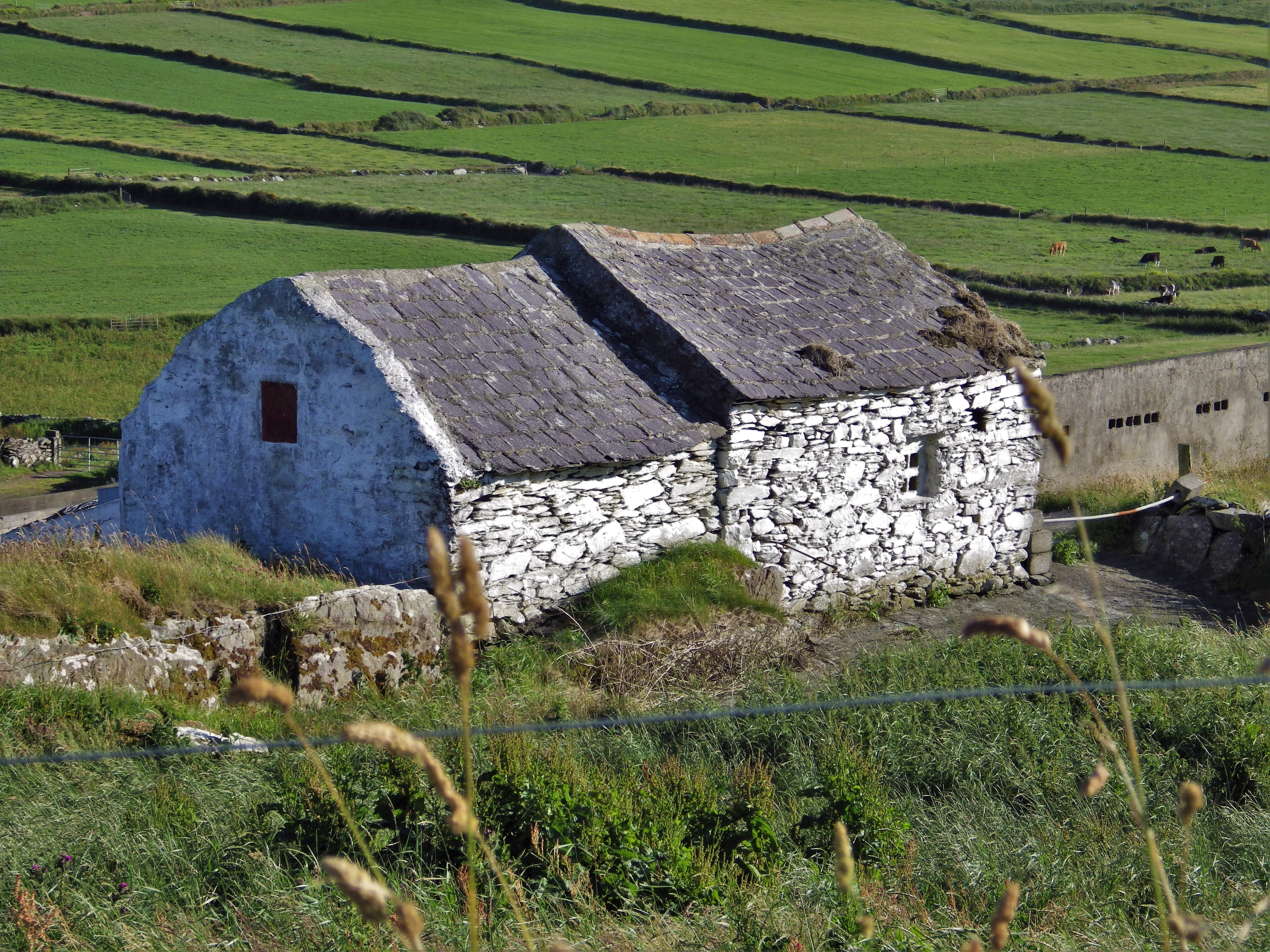 Cottage in Carrigmanus, West Cork - June 2016